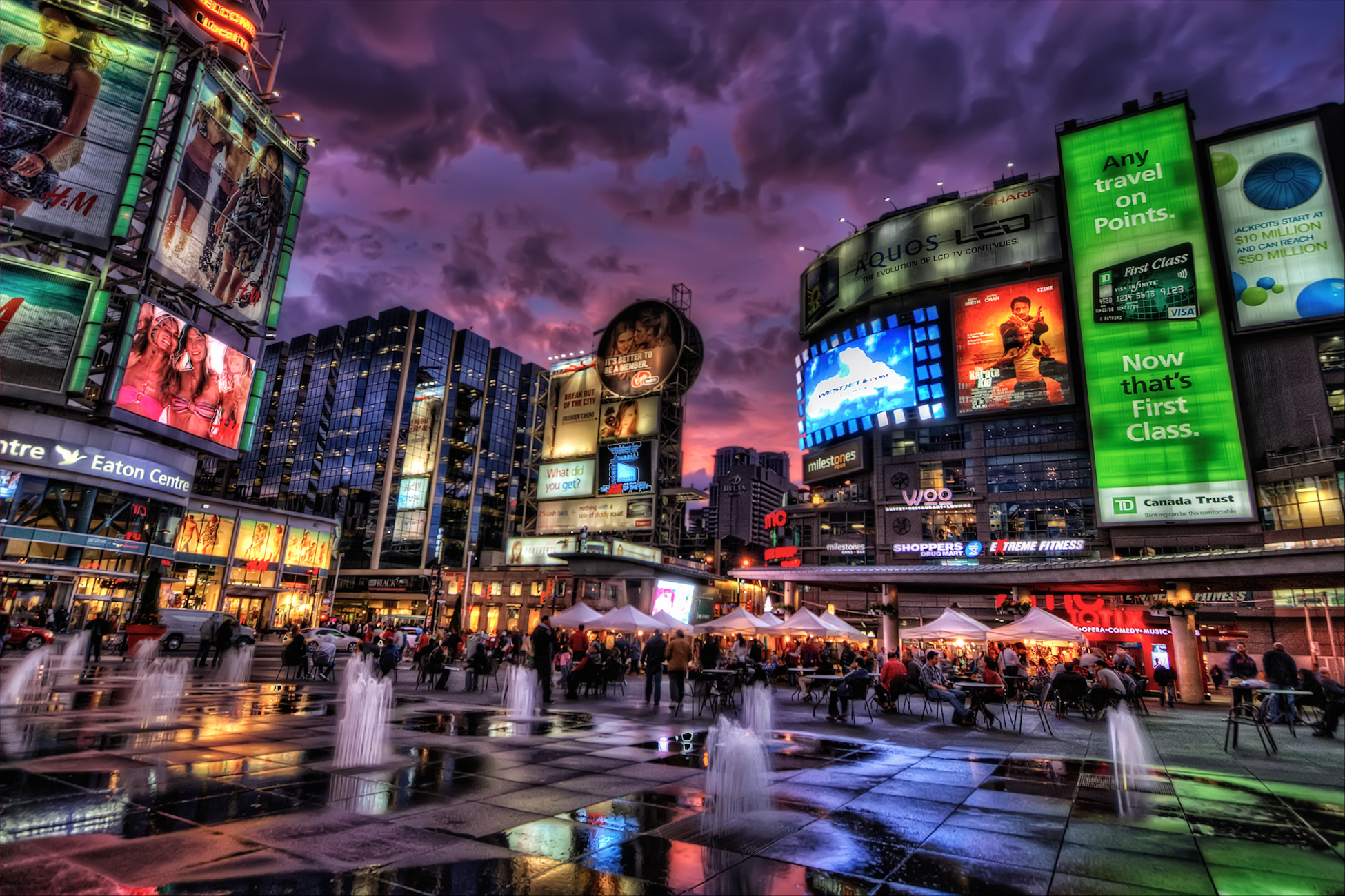 Dundas Square in Downtown Toronto, Ontario, Canada